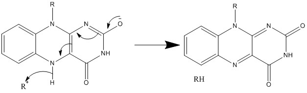 Hydride Loss using FAD